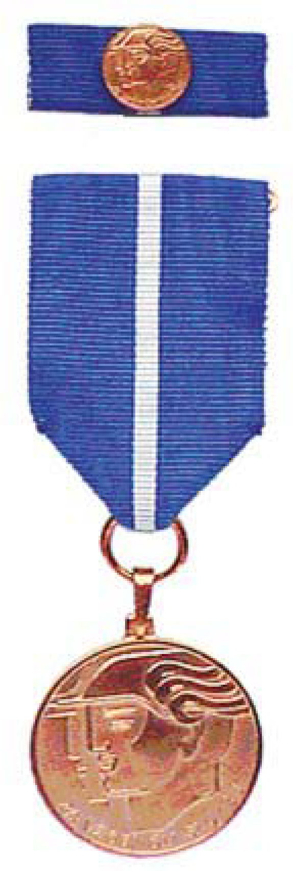 Medal of the Customs Administration of the Czech Republic